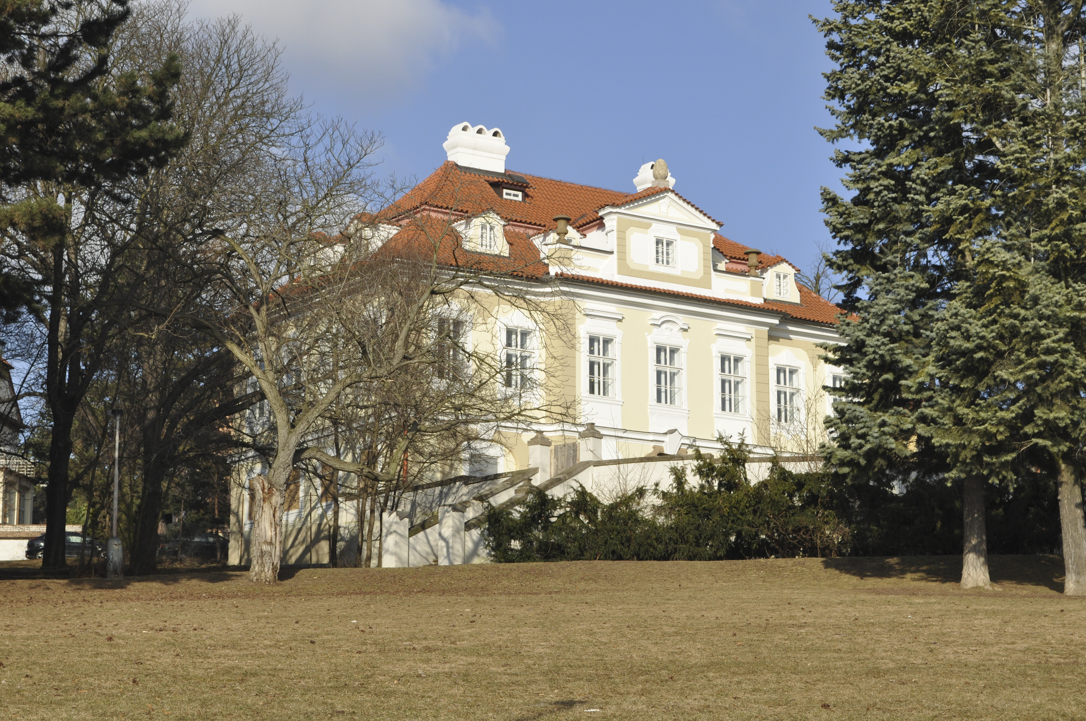 View on Hanspaulka Mansion.